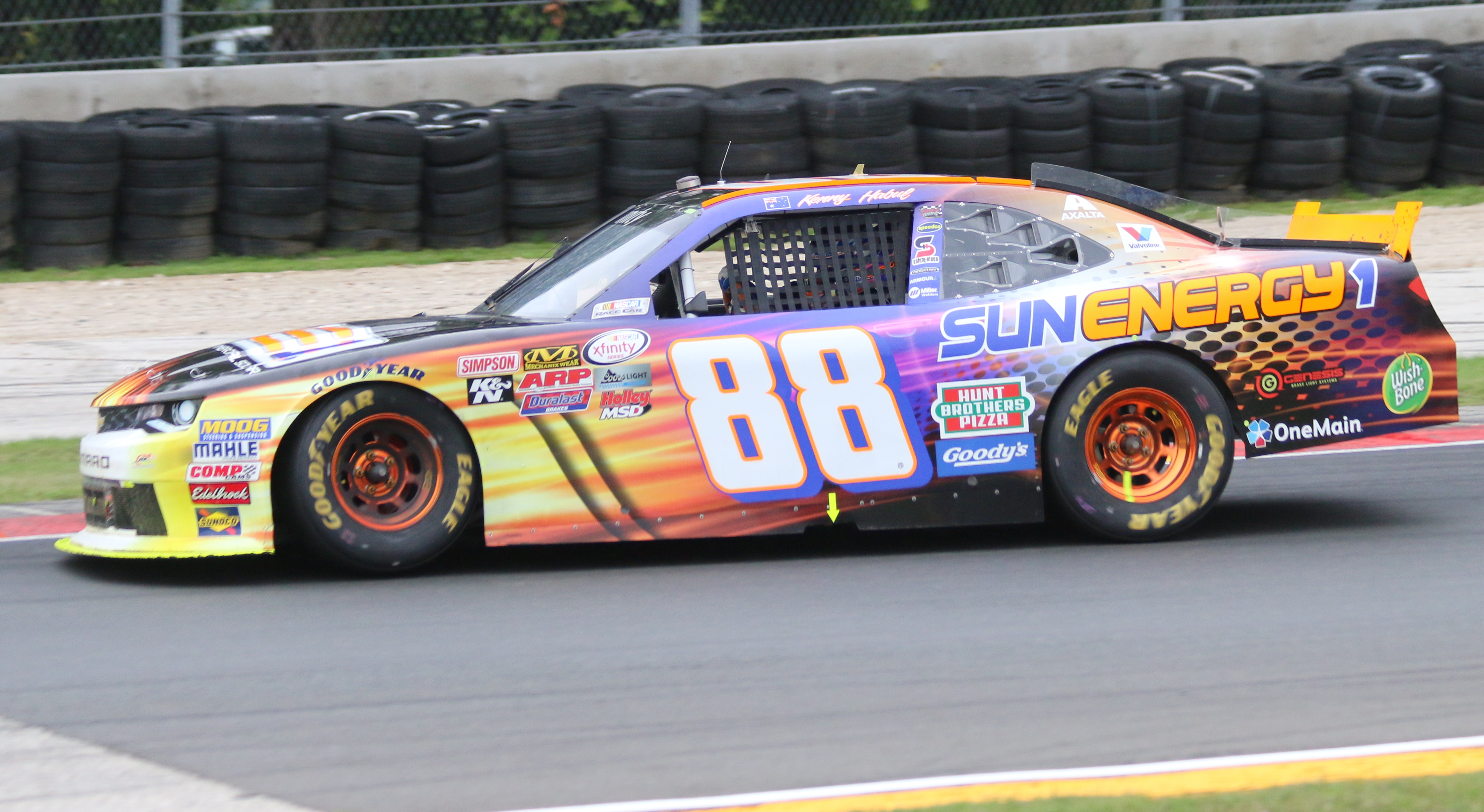 The Chevrolet Camaro of Kenny Habul at the NASCAR Xfinity Series Road America 180.